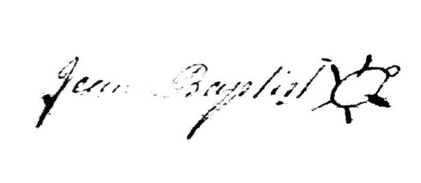 Jean-Baptiste Cope SignatureJPEG